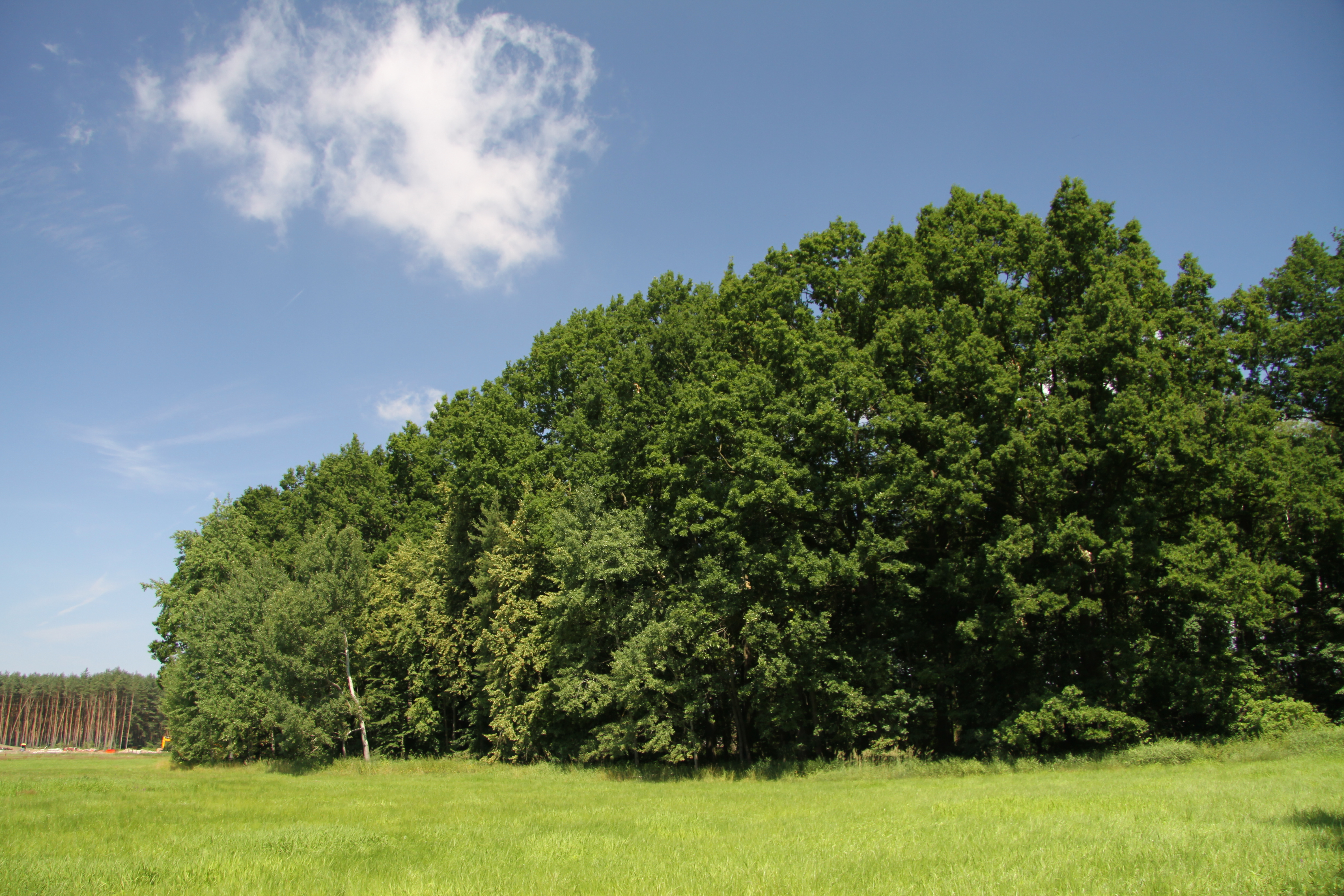 Natural monument Doubí u Žíšova, Tábor District, Czech Republic - Google Maps - Google Earth